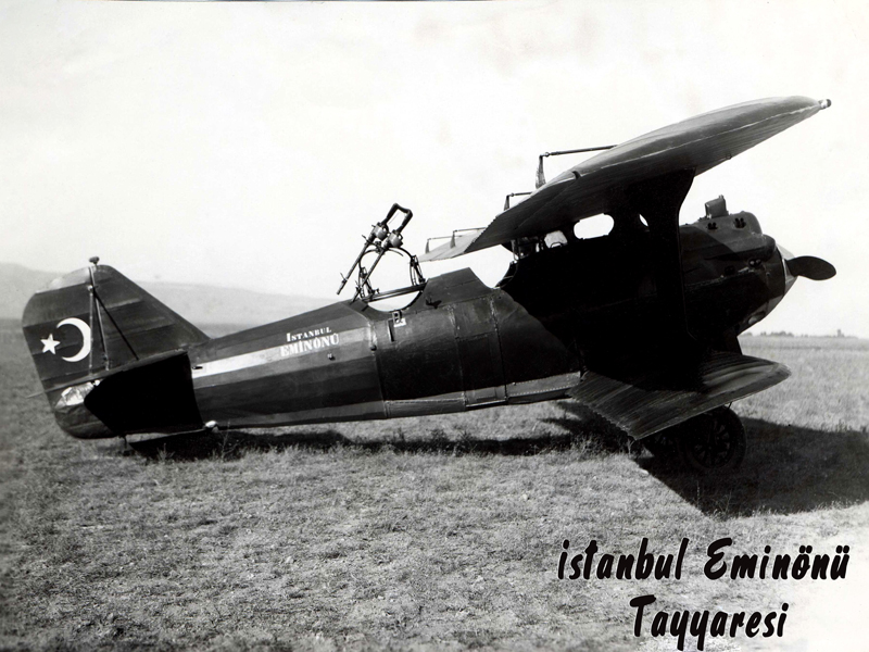 Breguet 19 "İstanbul Eminönü"